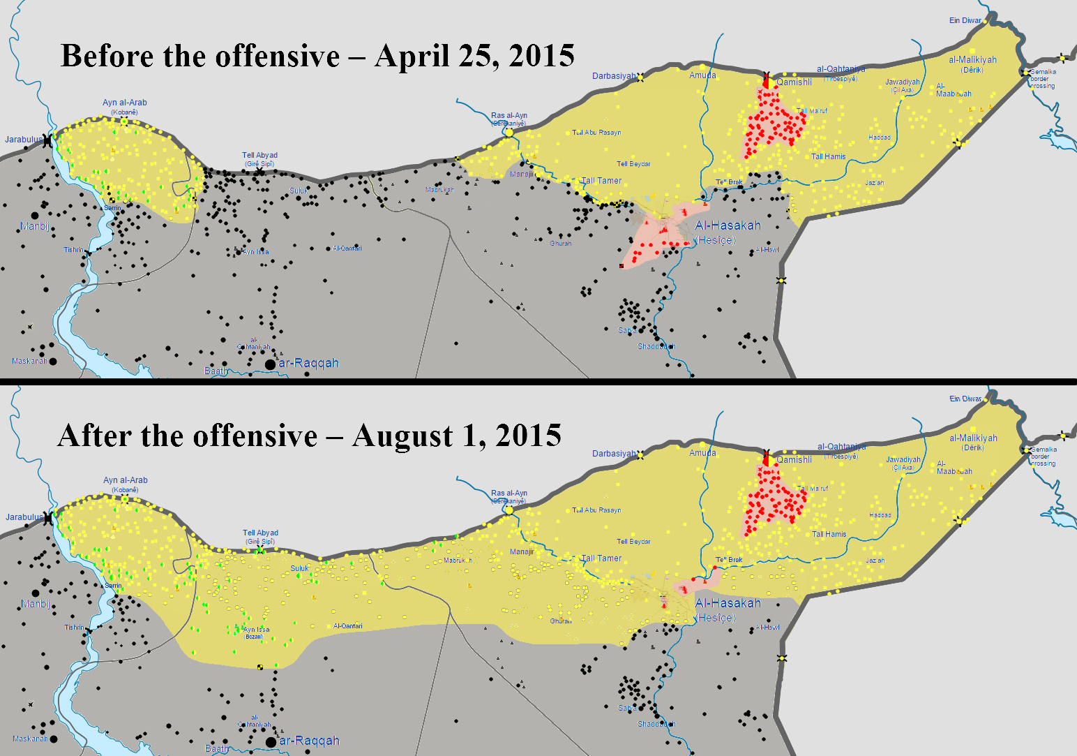 Map of the territorial gains made by the Kurdish YPG and their allied during the Northern Syria offensive (2015), dubbed Operation Rûbar Qamishlo by the Kurds. The Northern Syria offensive lasted from May to July 2015, which was comprised of the Al-Hasakah offensive (May 2015), and the Tell Abyad offensive (2015). The offensive was the largest offensive carried out by the YPG against the Islamic State of Iraq and the Levant, which saw the Kurdish-led forces capture 6,835 square miles (11,000 square kilometers) of land, and over 900 towns and villages from ISIL. By early August 2015, ISIL had lost over 10,000 militants in Northern Syria, in clashes against YPG and the FSA during their offensive operations. The outcome of the offensive was deemed to be one of the biggest defeats dealt to ISIL, with the recent Kurdish advances stripping ISIL of multiple strongholds it once controlled, as well as crucial supply routes to Turkey.